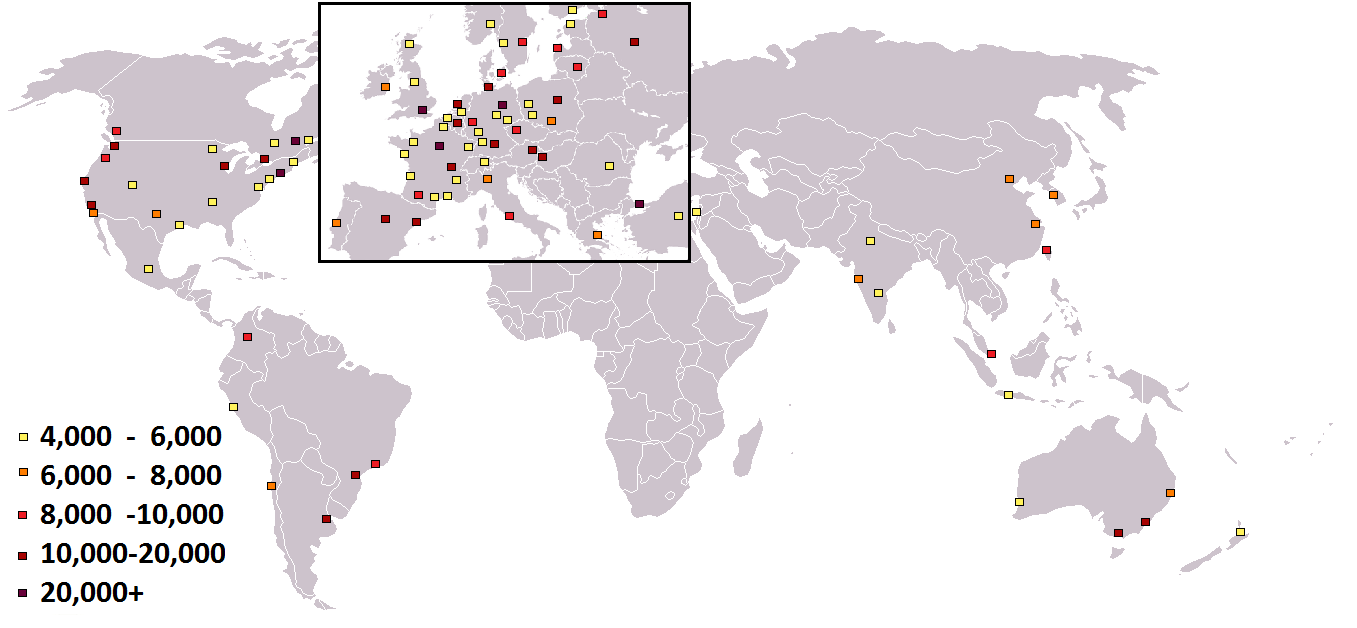 Thematic map indicating cities with more than 4,000 persons who have registered with .